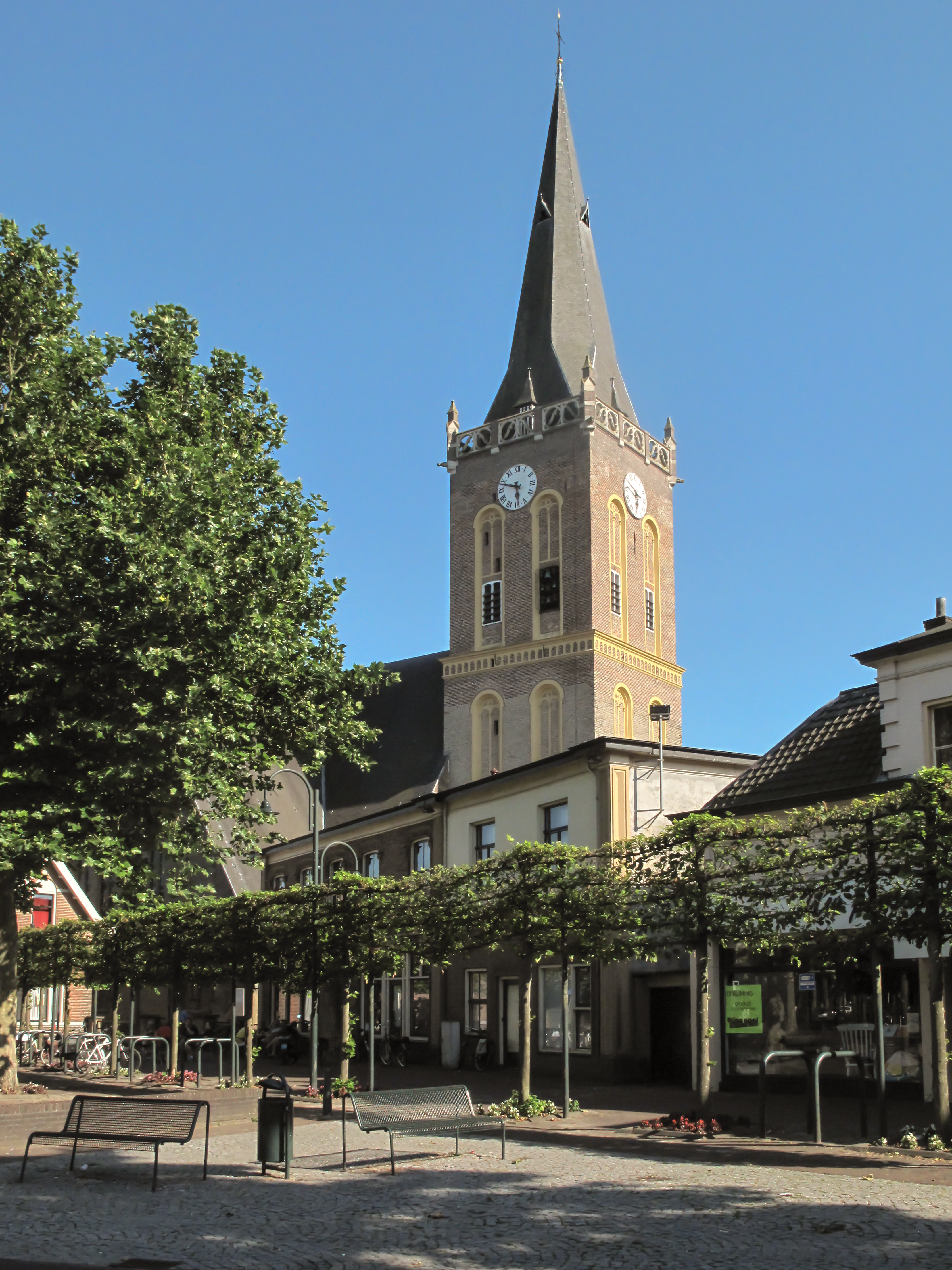 Heerde, church (de Johanneskerk) in the street